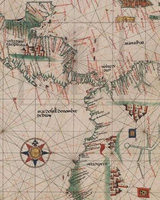 Central America and Peru in an anonymous Portuguese atlas bound together with the Livro de Marinharia, which was signed in 1514 by João de Lisboa (1470-1525).